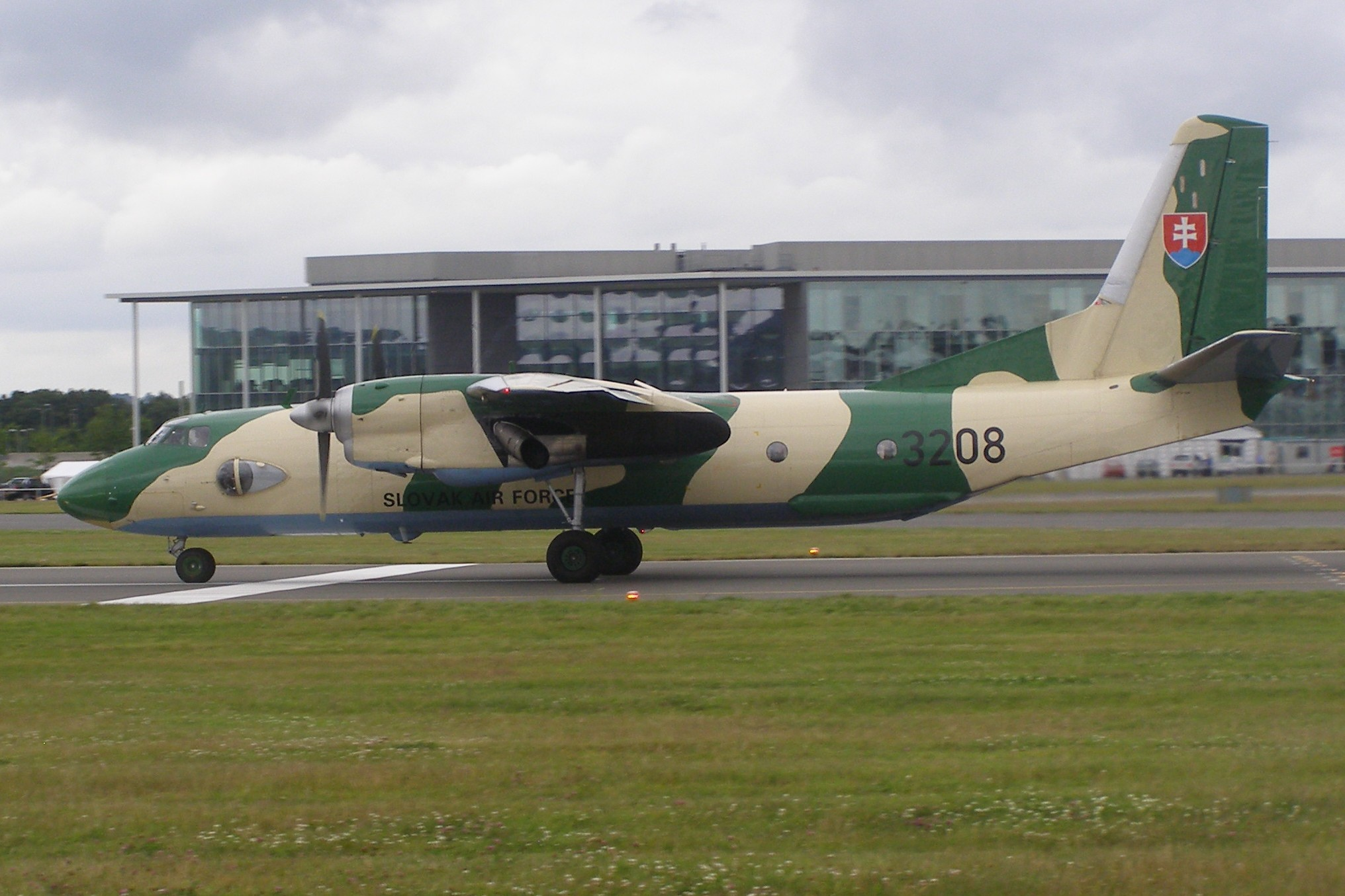 Slovak Air Force Antonov An-26 (serial number 3208) at Farnborough Airshow 2008